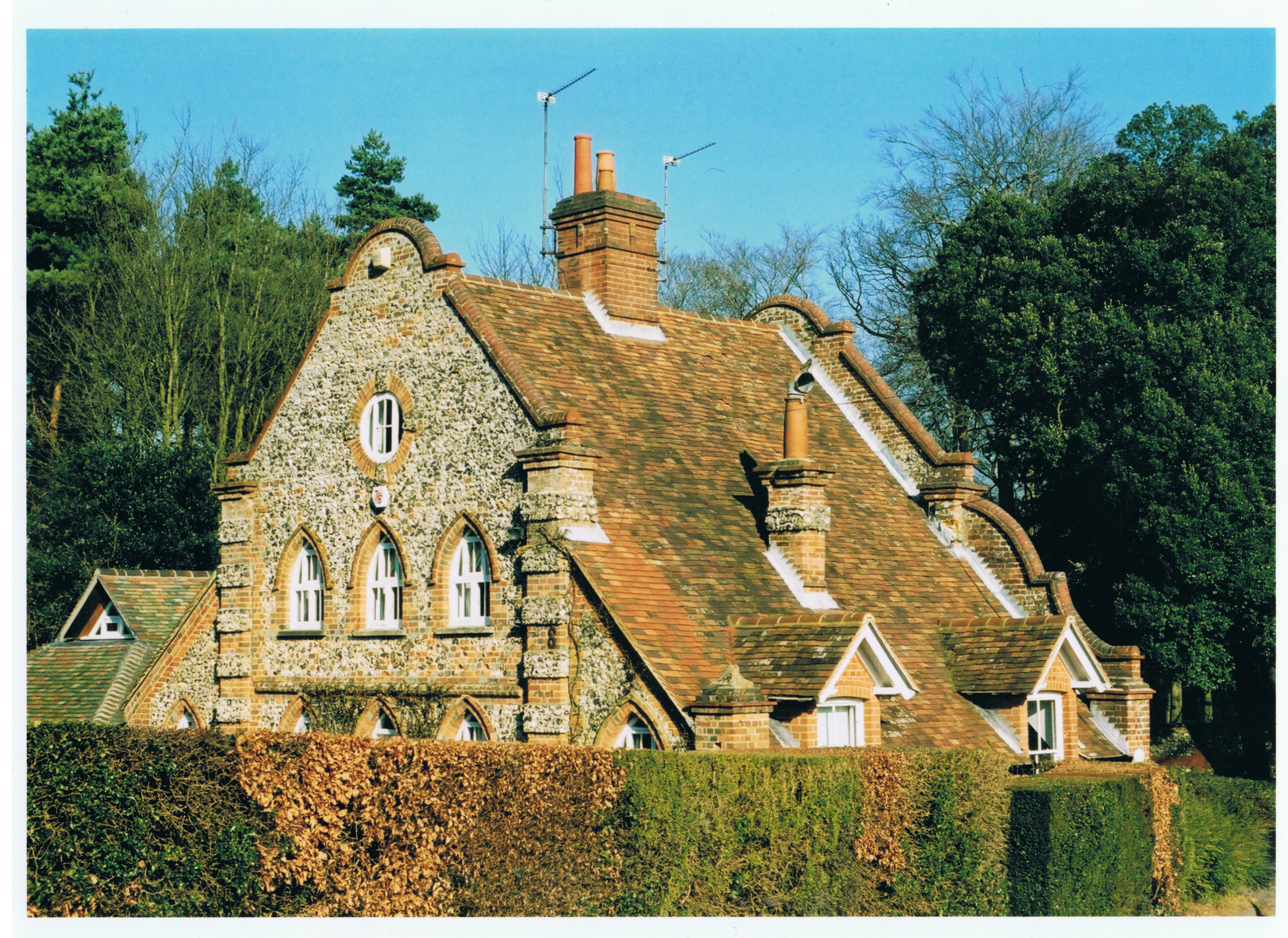 Photo (by me, R. de Salis, Rodolph (talk) 02:04, 22 January 2015 (UTC)) of Godwins Lodge, Basildon Park, Lower Basildon, Berkshire, c. 2002.